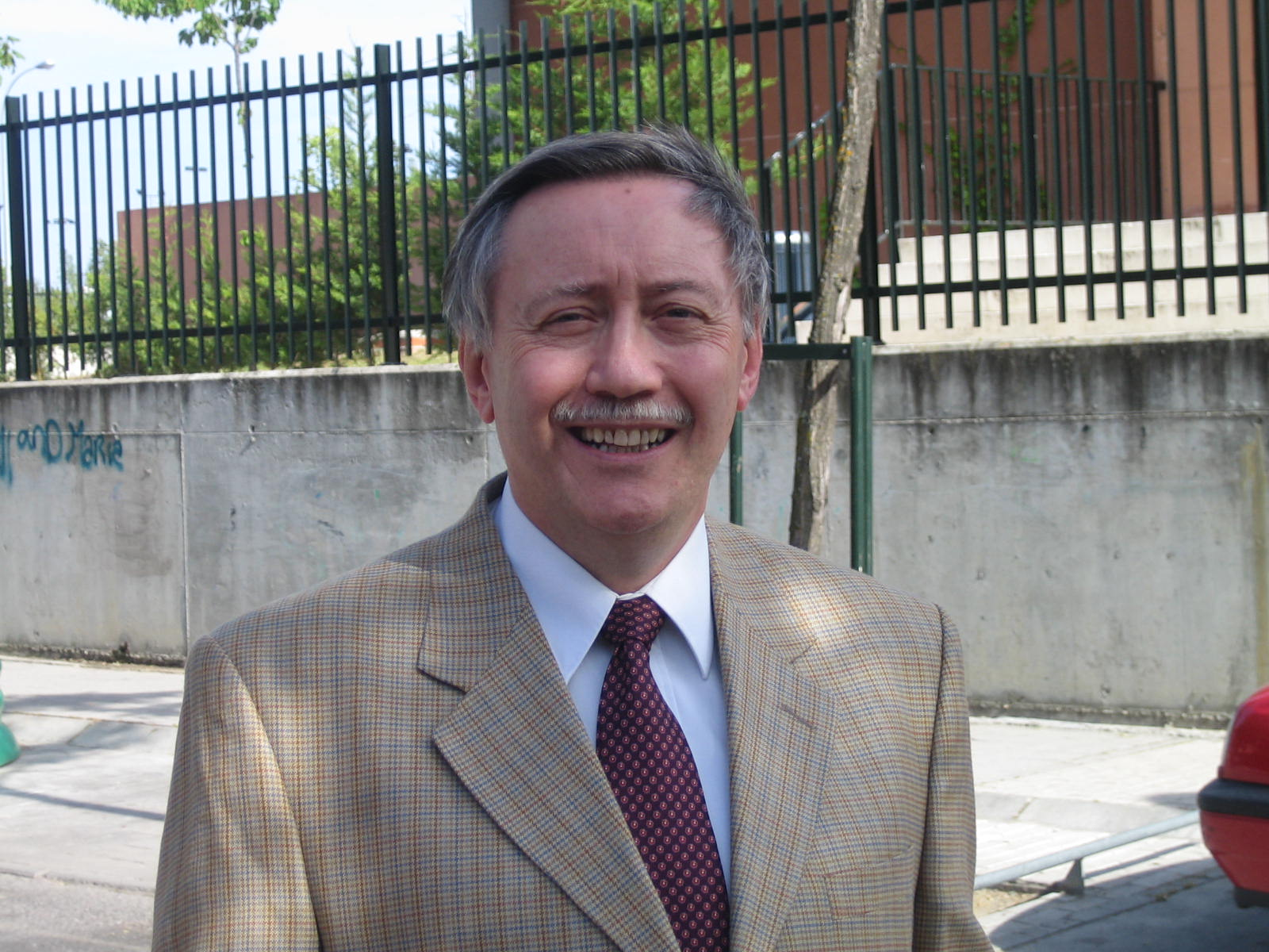 Francisco A. Marcos-Marín, Professor of Linguistics.